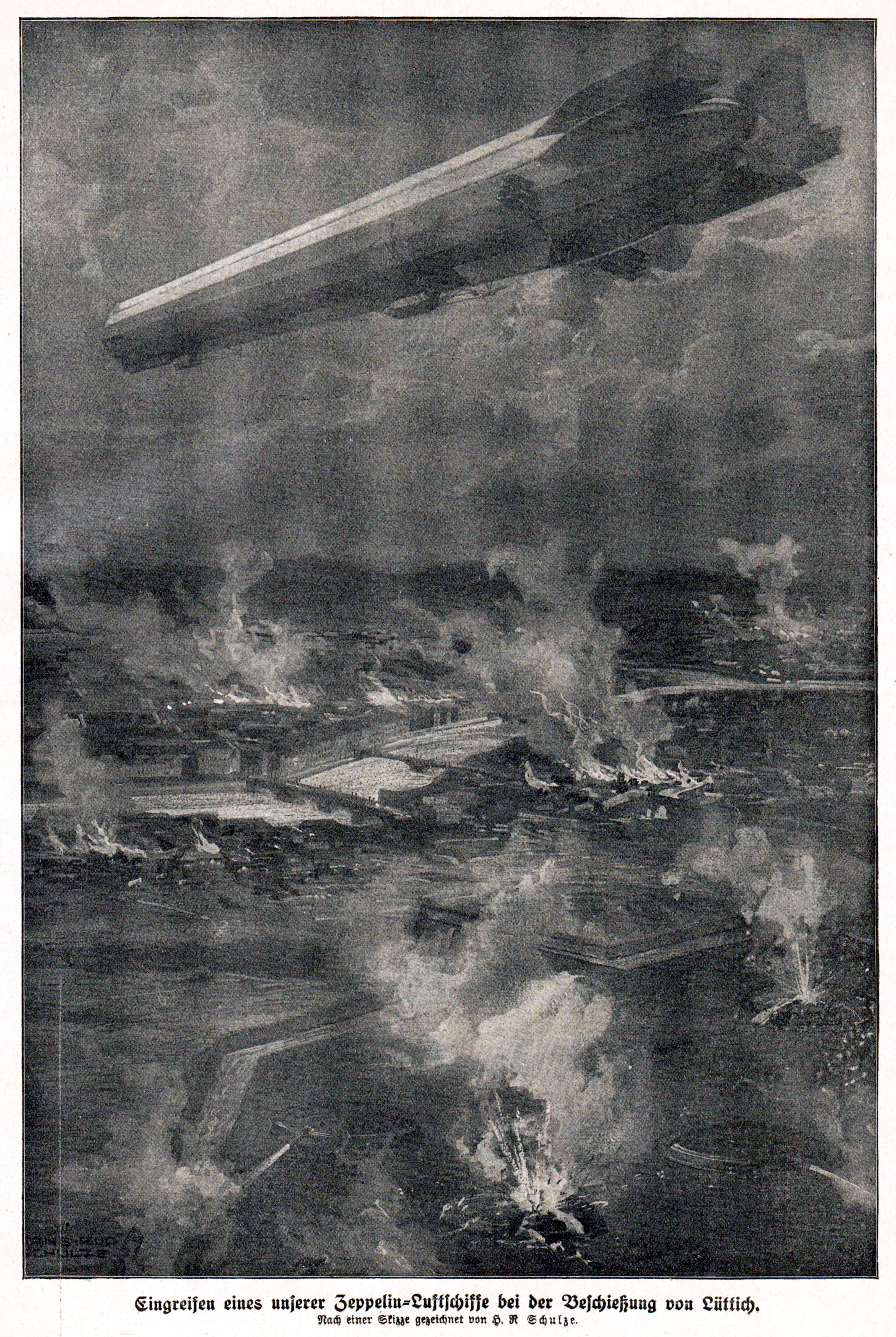 Der Krieg 1914-19 in Wort und Bild, published 1919